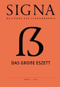 Cover showing Capital ß